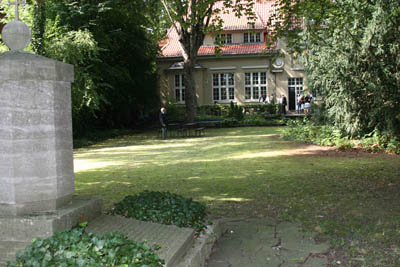 Garten und Haus der Burschenschaft Brunsviga Göttingen